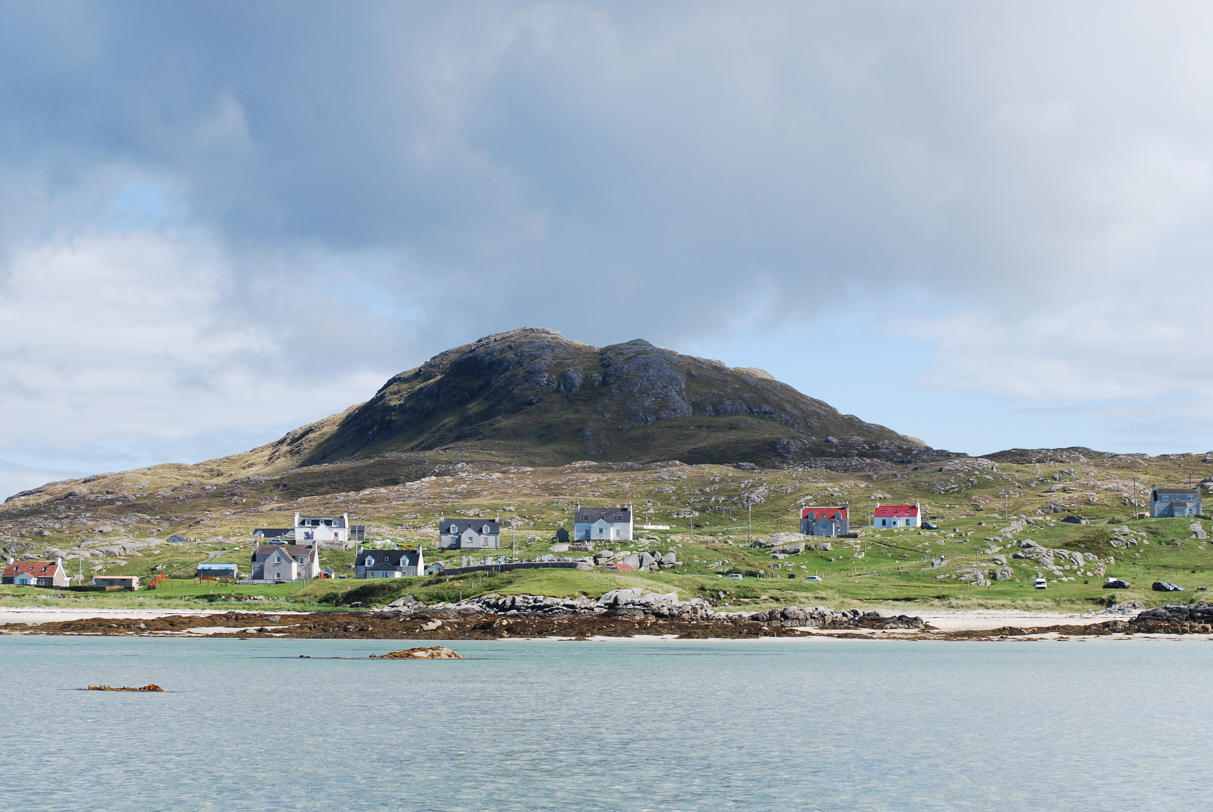 Beinn Sciathan, the highest point on Eriskay as viewed from a boat.